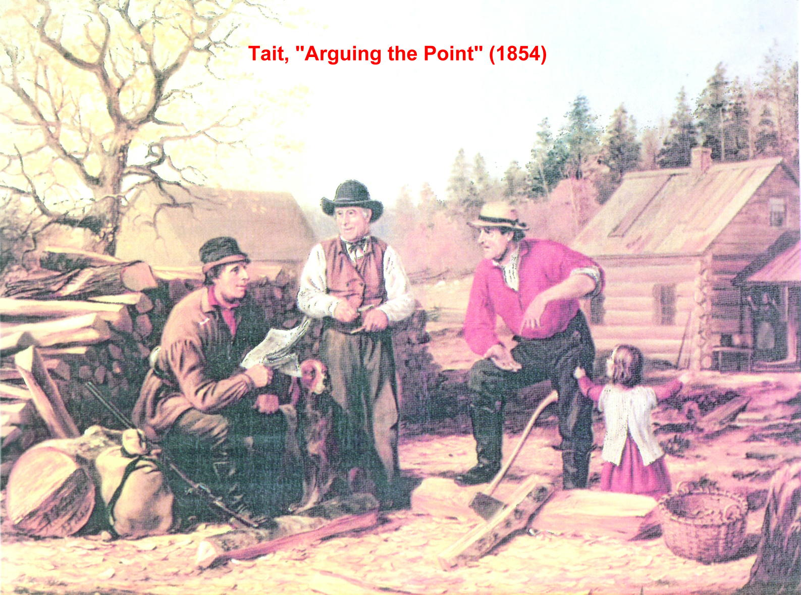 Arguing the Point: Settling the Presidency